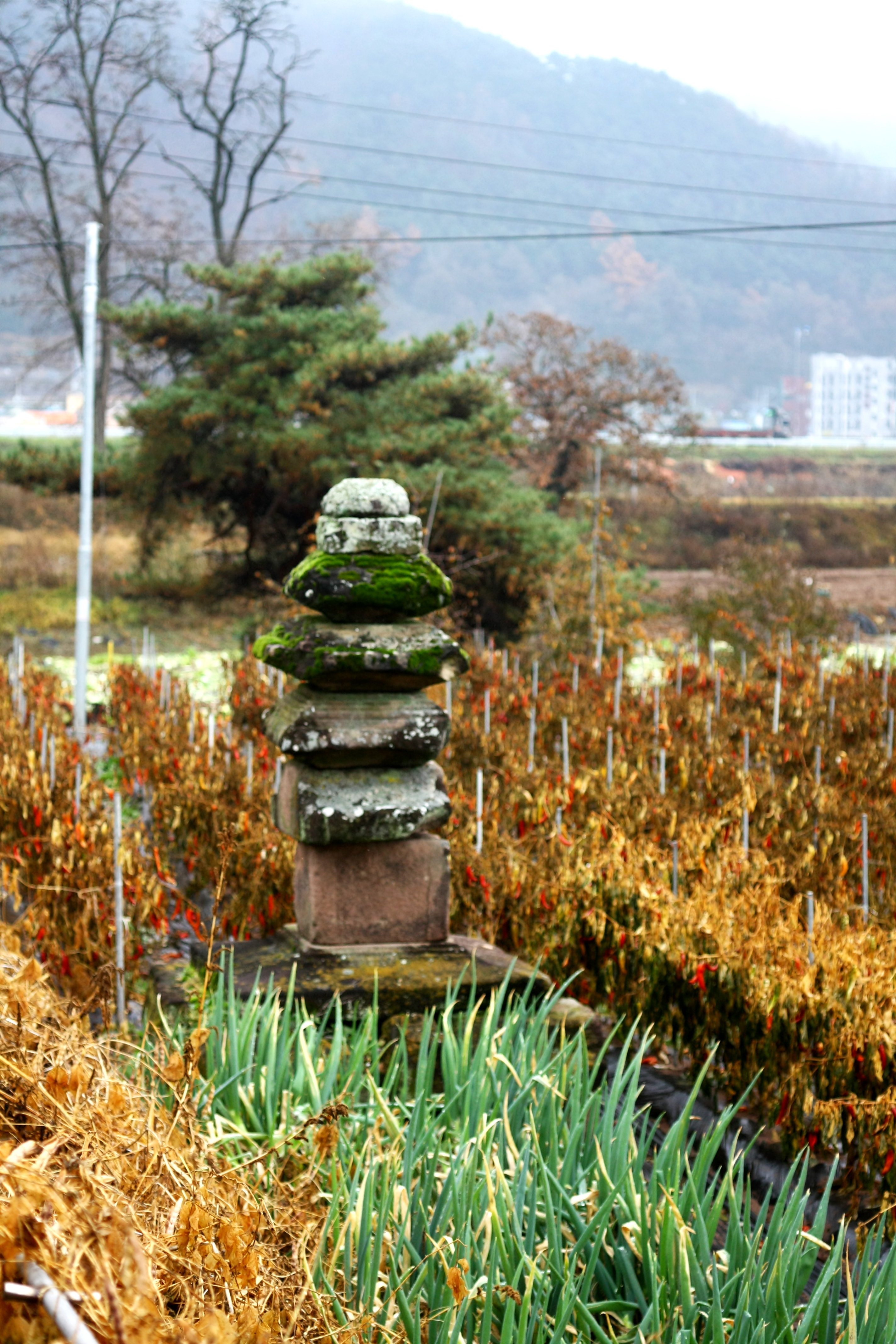 Three-story Stone Pagoda at Sinsa-ri, Yeongyang in South Korea